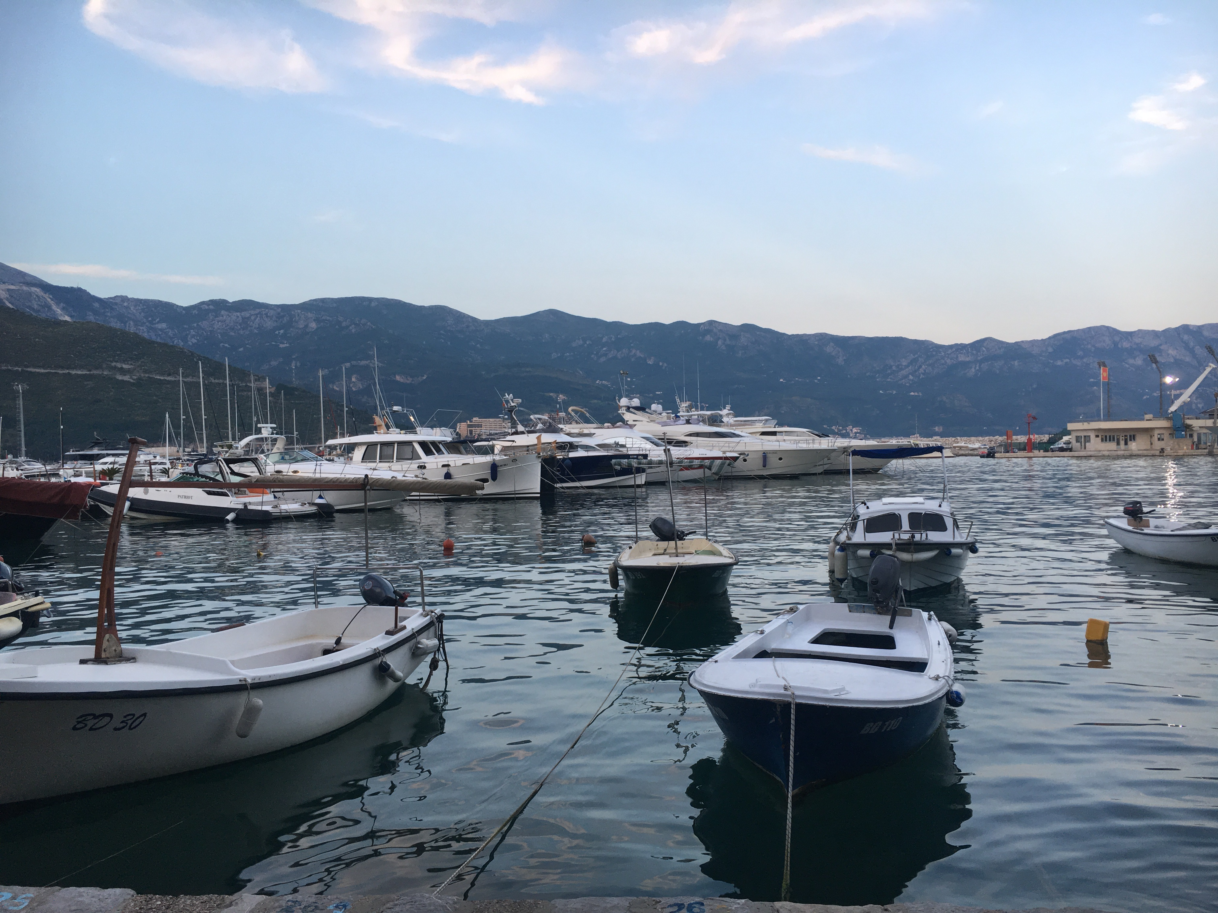 Budva Marina